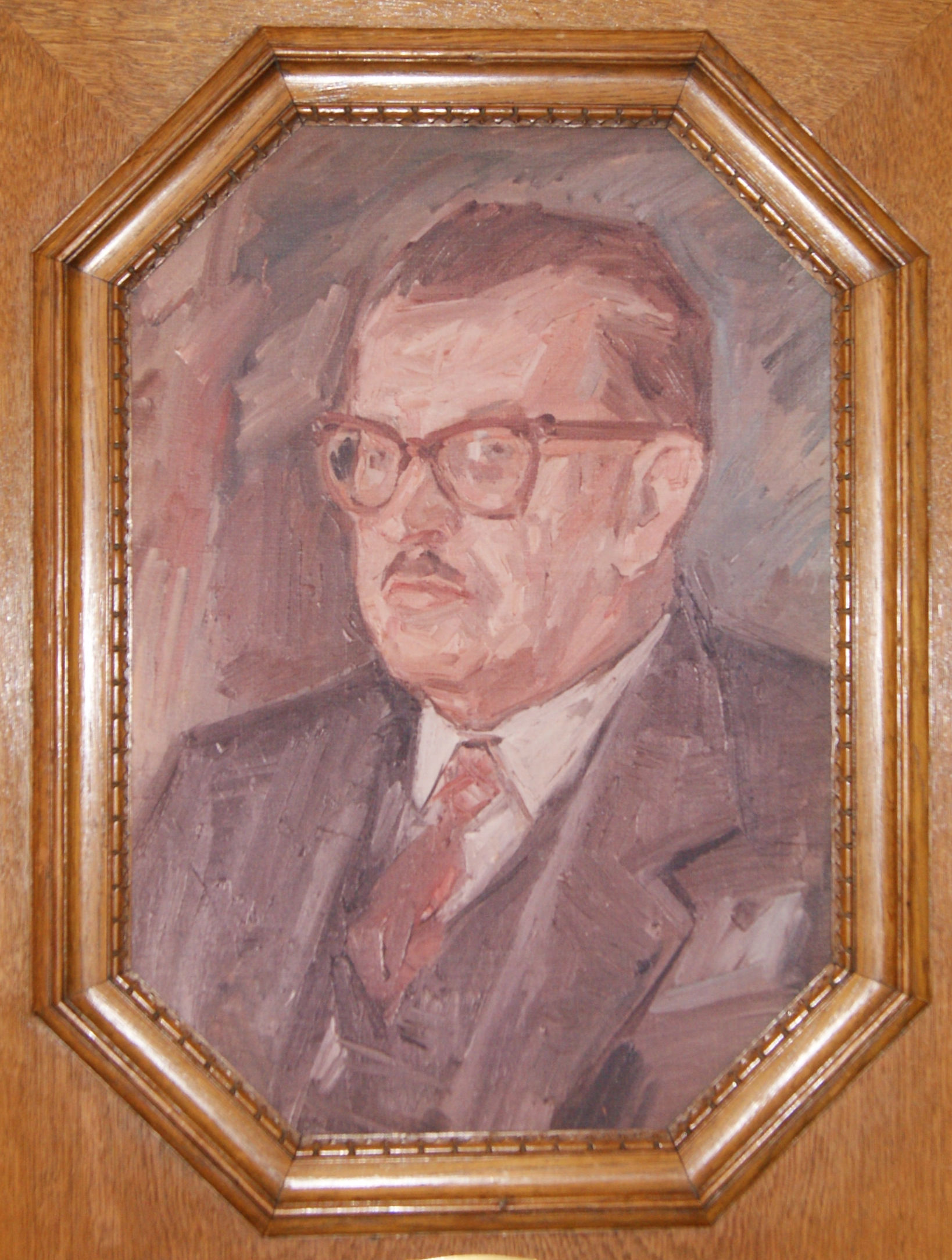 Julius Wachter, authorized representative and Mayor (1945-1947) in Bregenz, Vorarlberg, Austria. Painting in the mayor's gallery in the town hall of Bregenz.